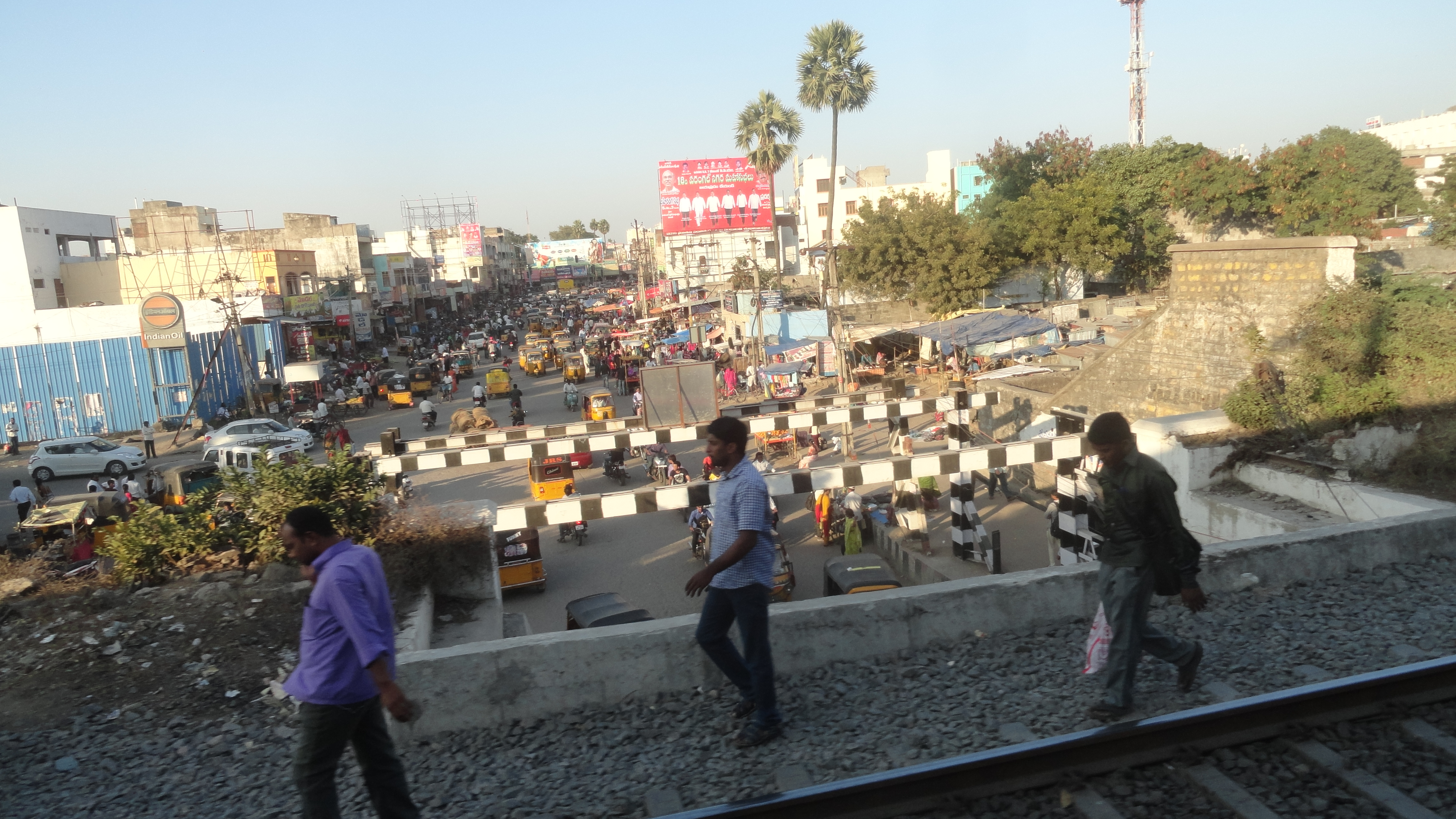 Warangal. one road